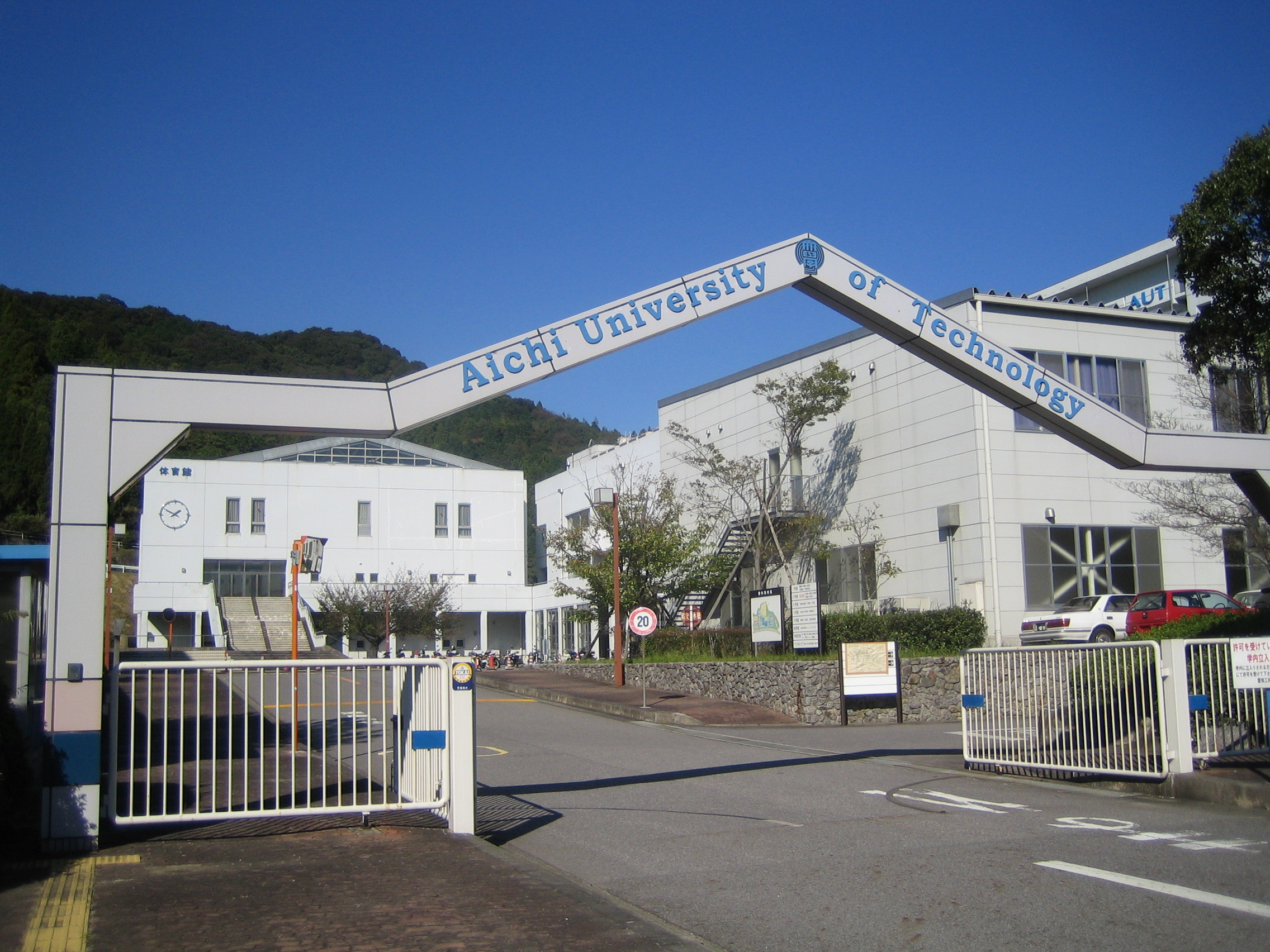 Aichi University of Technology (愛知工科大学), at Gamagori, Aichi, Japan